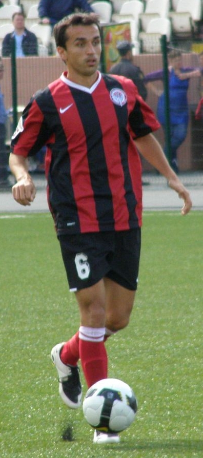 Dimitar Telkiyski in action for for FC Amkar